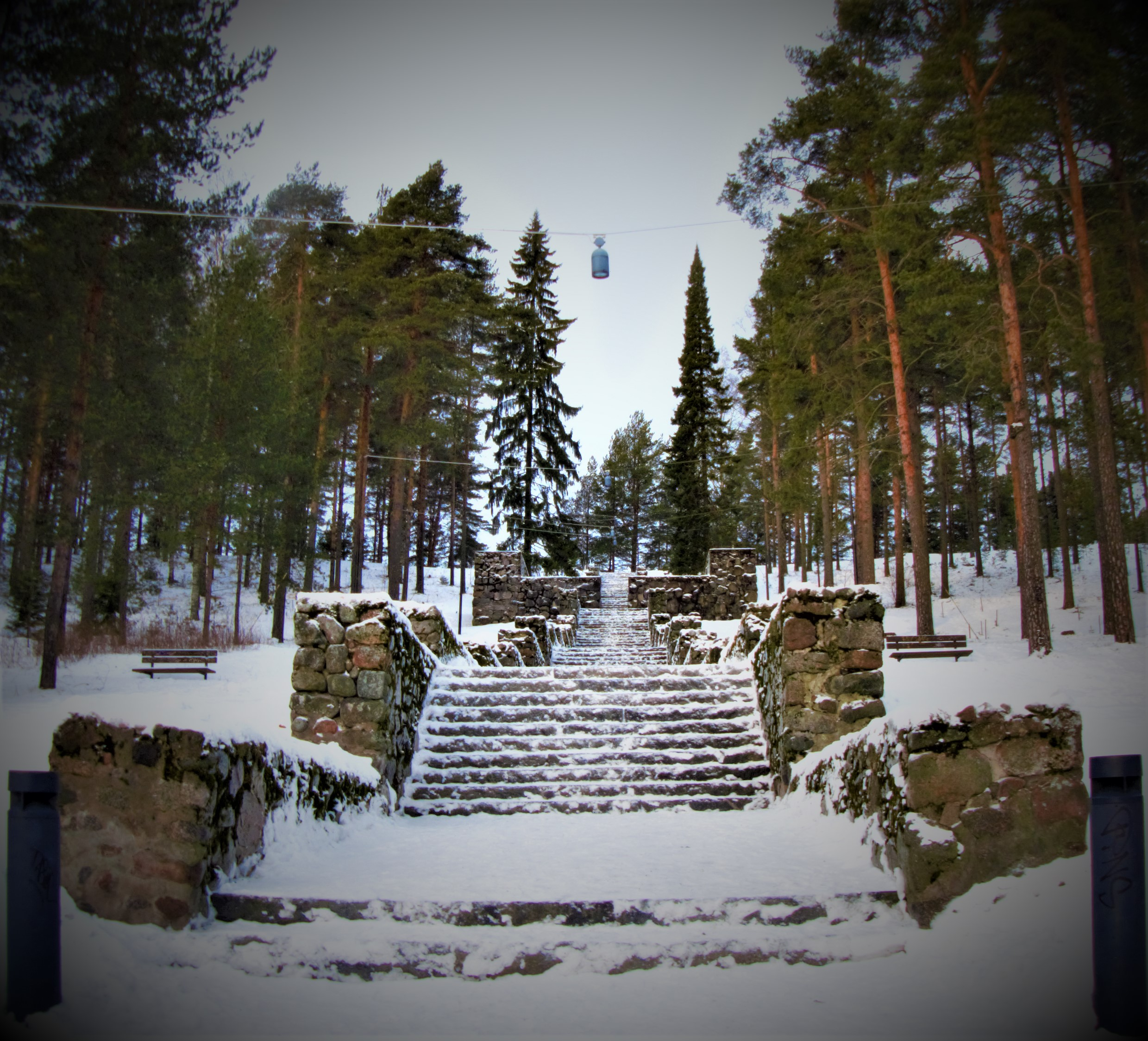 Harju stairs